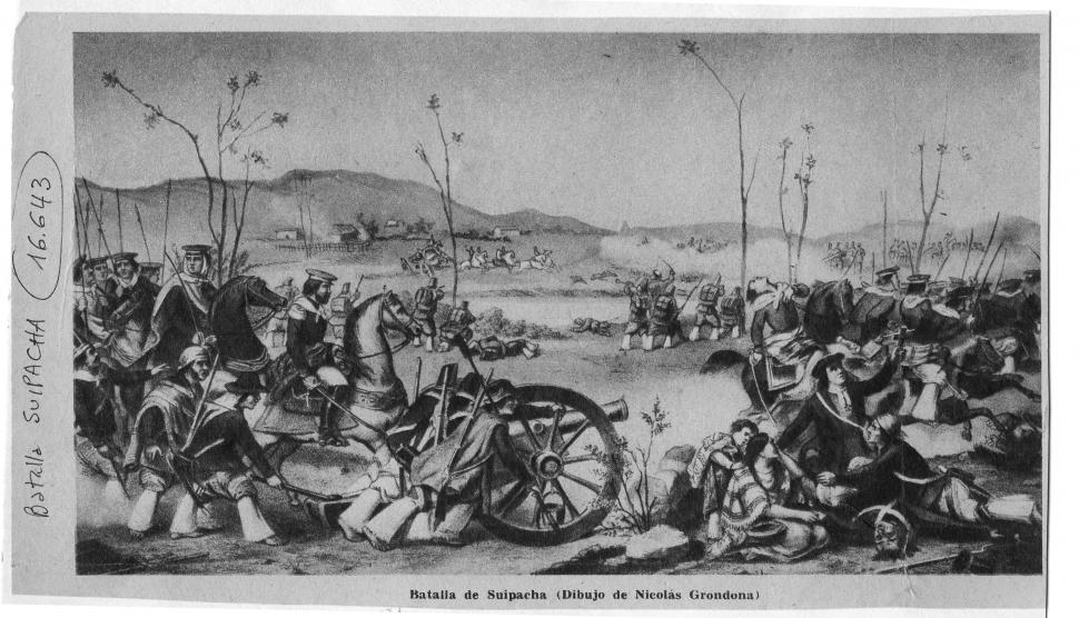 Detail of a lithography of the battle of Suipacha.